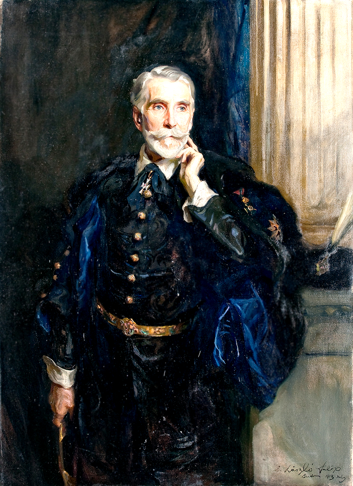 Baron Gyula Forster de Pusztakér (1846–1932), Hungarian jurist and expert on arts, member of the Hungarian Academy of Sciences (1899–1904), chairman of the National Committee for Historic Monuments.